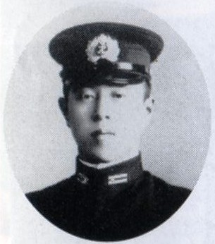 Kuroki Hiroshi is an Imperial Japanese Navy Senior Lieutenant